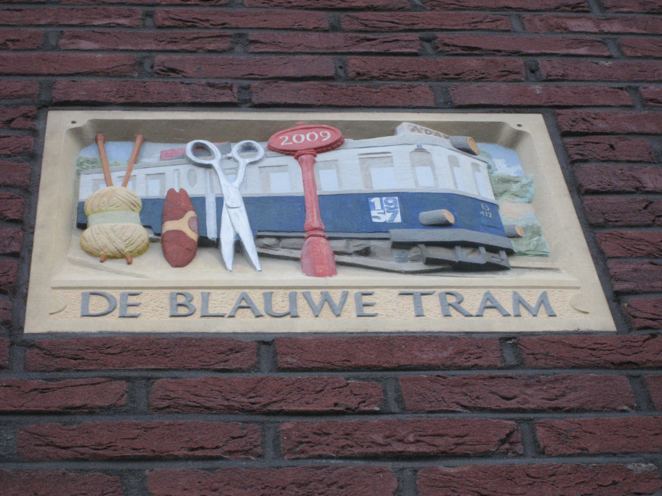 Gable stone in Tempelierstraat, Haarlem, The Netherlands (2009). In remembrance of the old stop of the Blauwe Tram (Blue Tram), from Amsterdam to Zandvoort (until 1957)